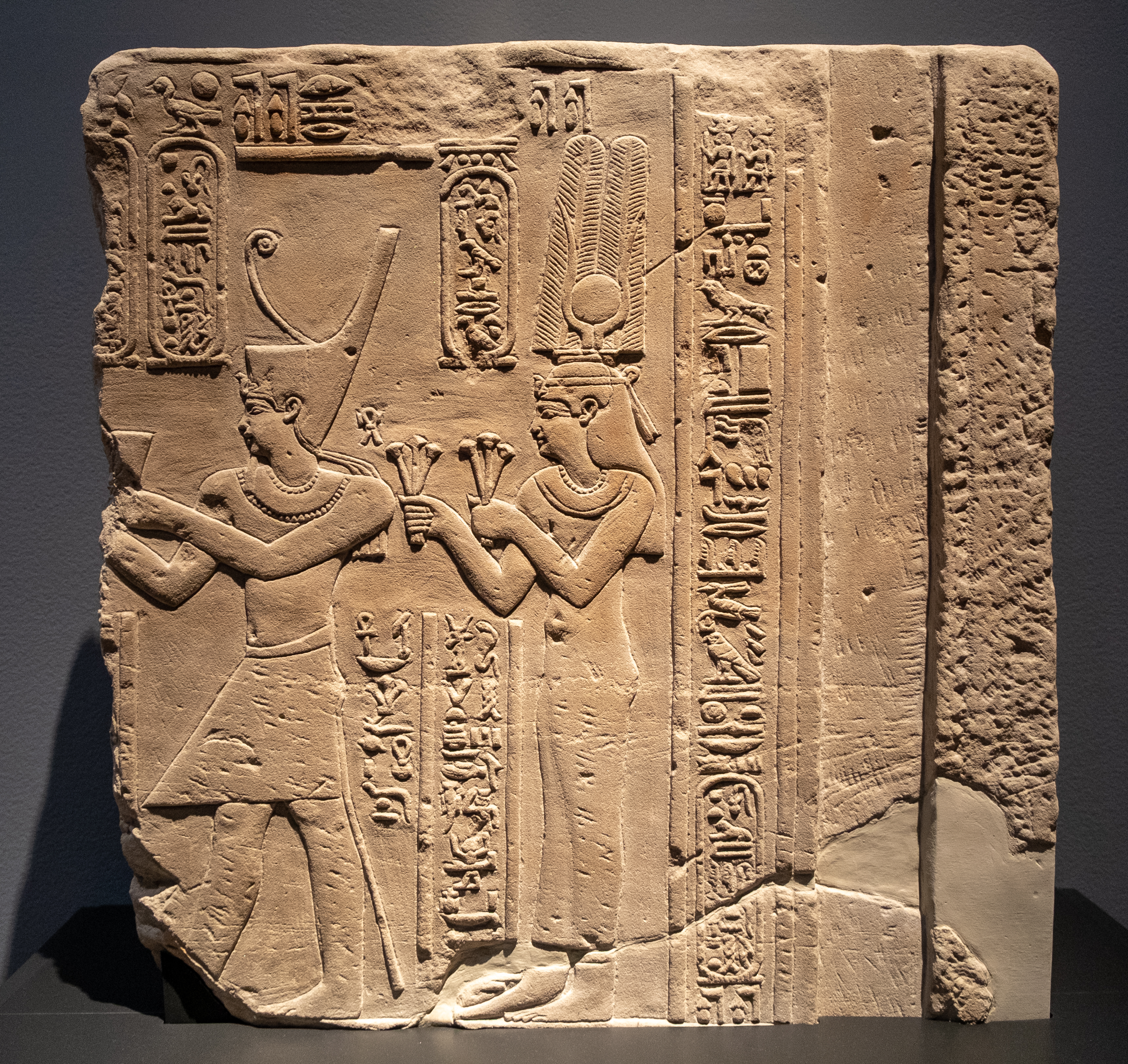 2018 Egypt and the Classical World J. Paul Getty Museum, Los Angeles